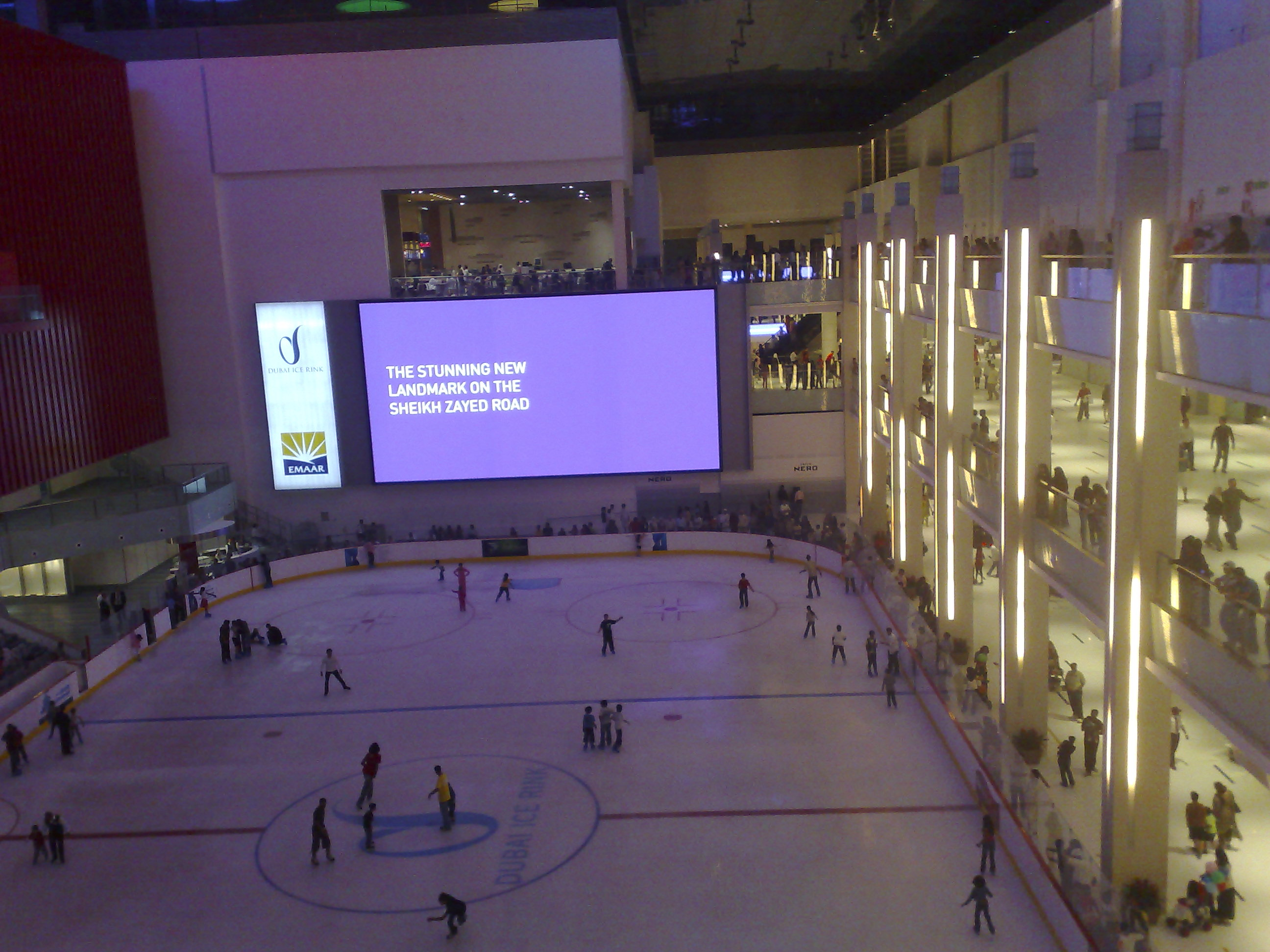 The Dubai Mall